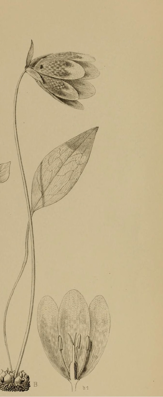 Illustration of Fritillaria davidii by Franchet, Nouv. Arch. Mus. Hist. Nat., sér. 2 1887